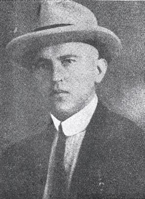 Vladimir Sis, chech journalist in Sofia, Bulgaria, 1912-1913